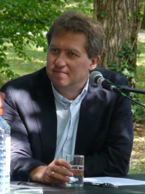 german author Florian Felix Weyh moderating at the Erlanger Poetenfest 2009